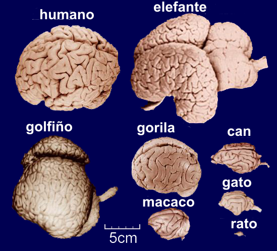 comparative brain size of different mammals annotated in Galician